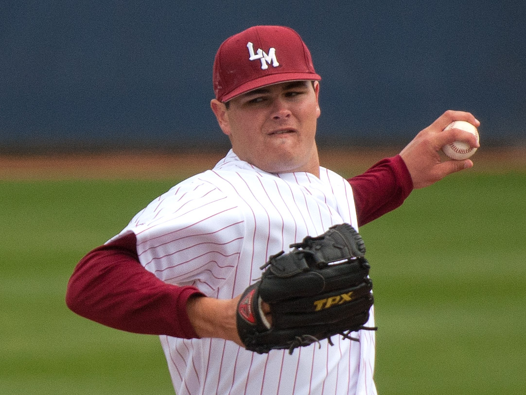 Jason Wheeler delivers a pitch for the Loyola Marymount Lions baseball team in 2011.